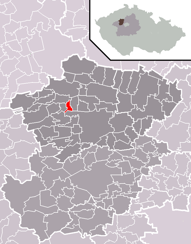 Location of Kutrovice municipality within Kladno District and administrative area of Slaný as a Municipality with Extended Competence.